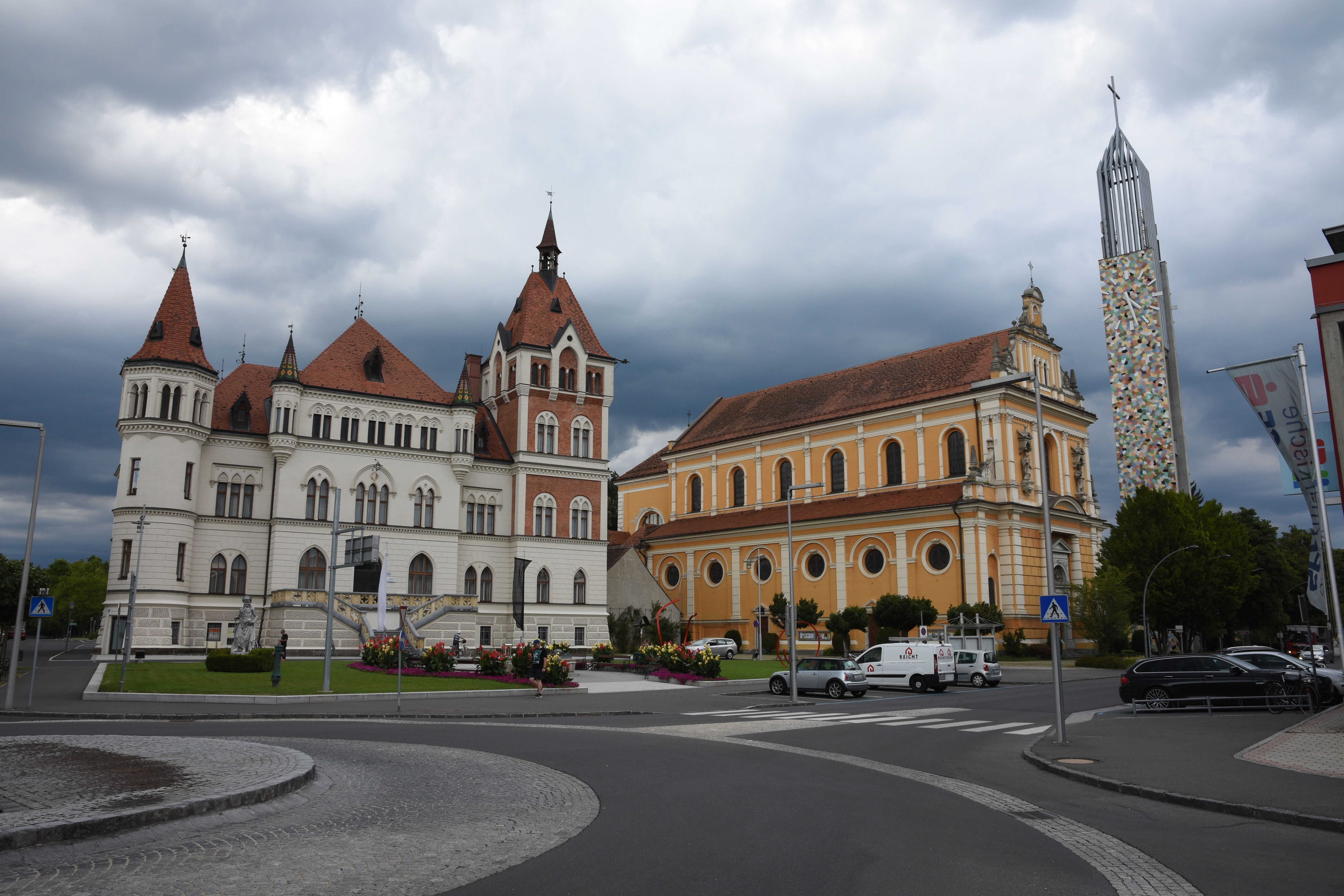 Leonhardskirche Feldbach